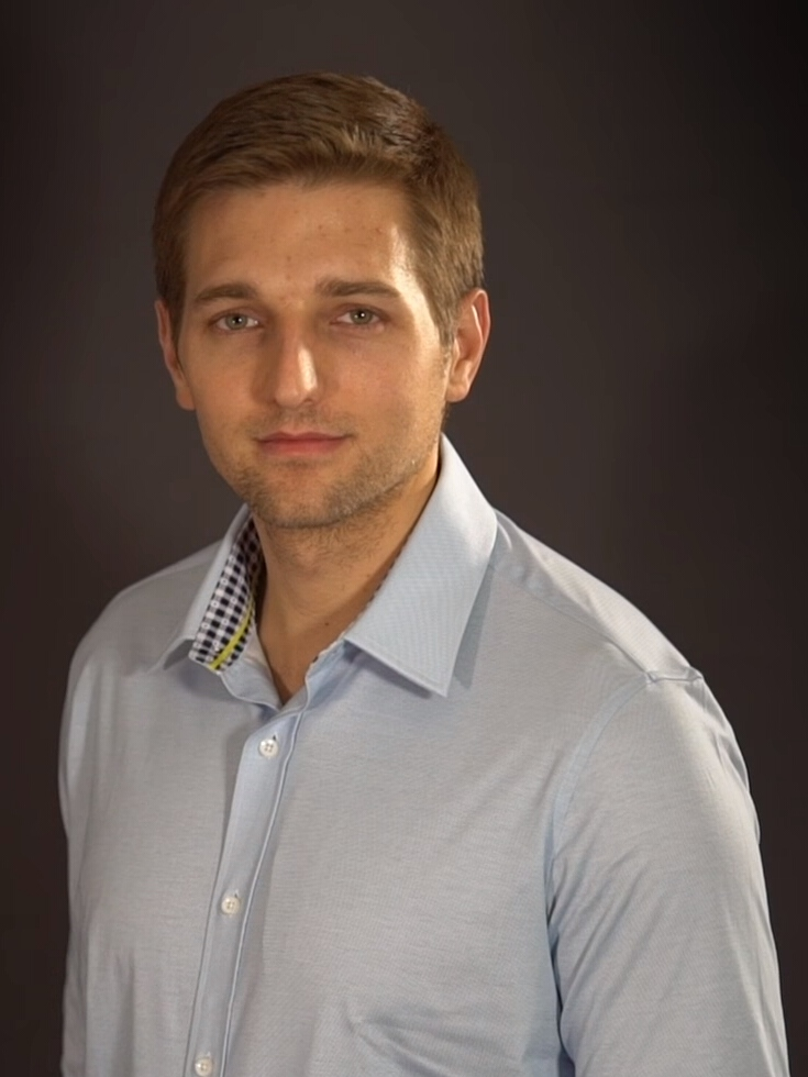 Tony Dunst welcomes Butter Cloth as New WPT Sponsor